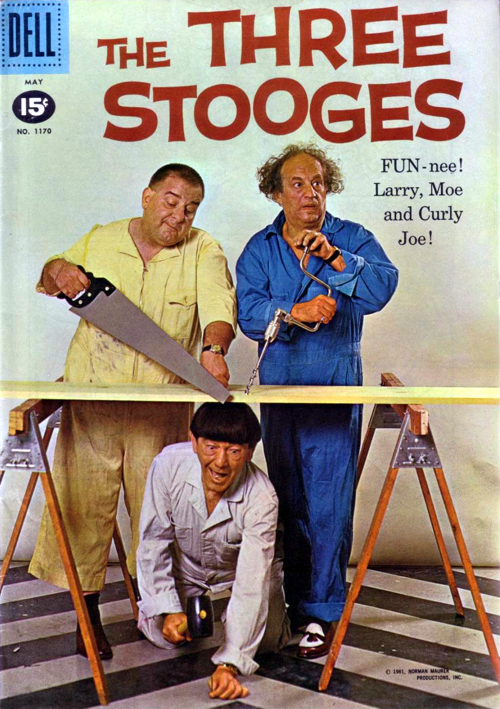 Larry and Curly Joe put Moe through his paces on the cover of The Three Stooges (Four Color Comics number 1170, May 1961).